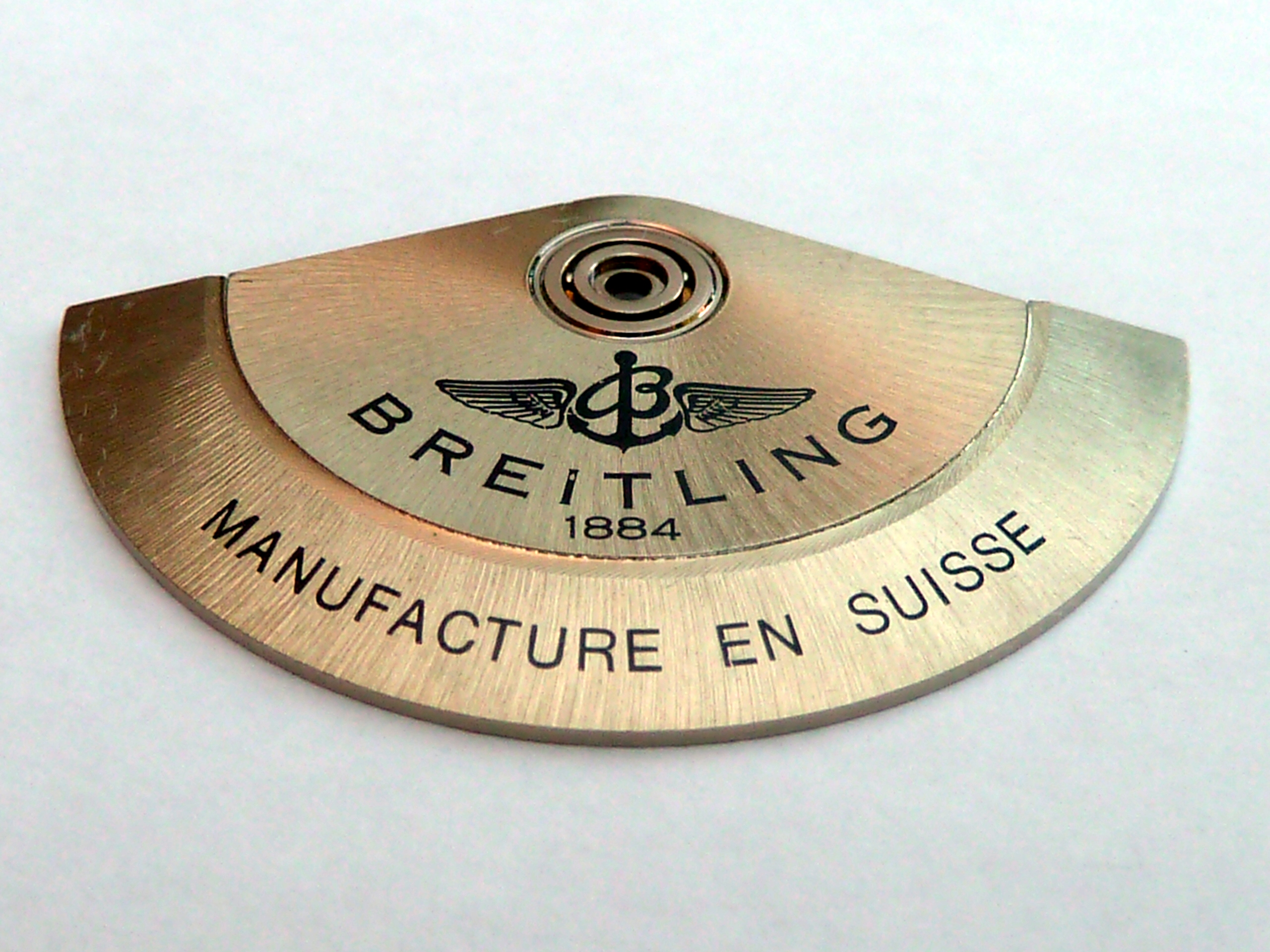 Breitling rotor for a Valjoux 7750 Movement